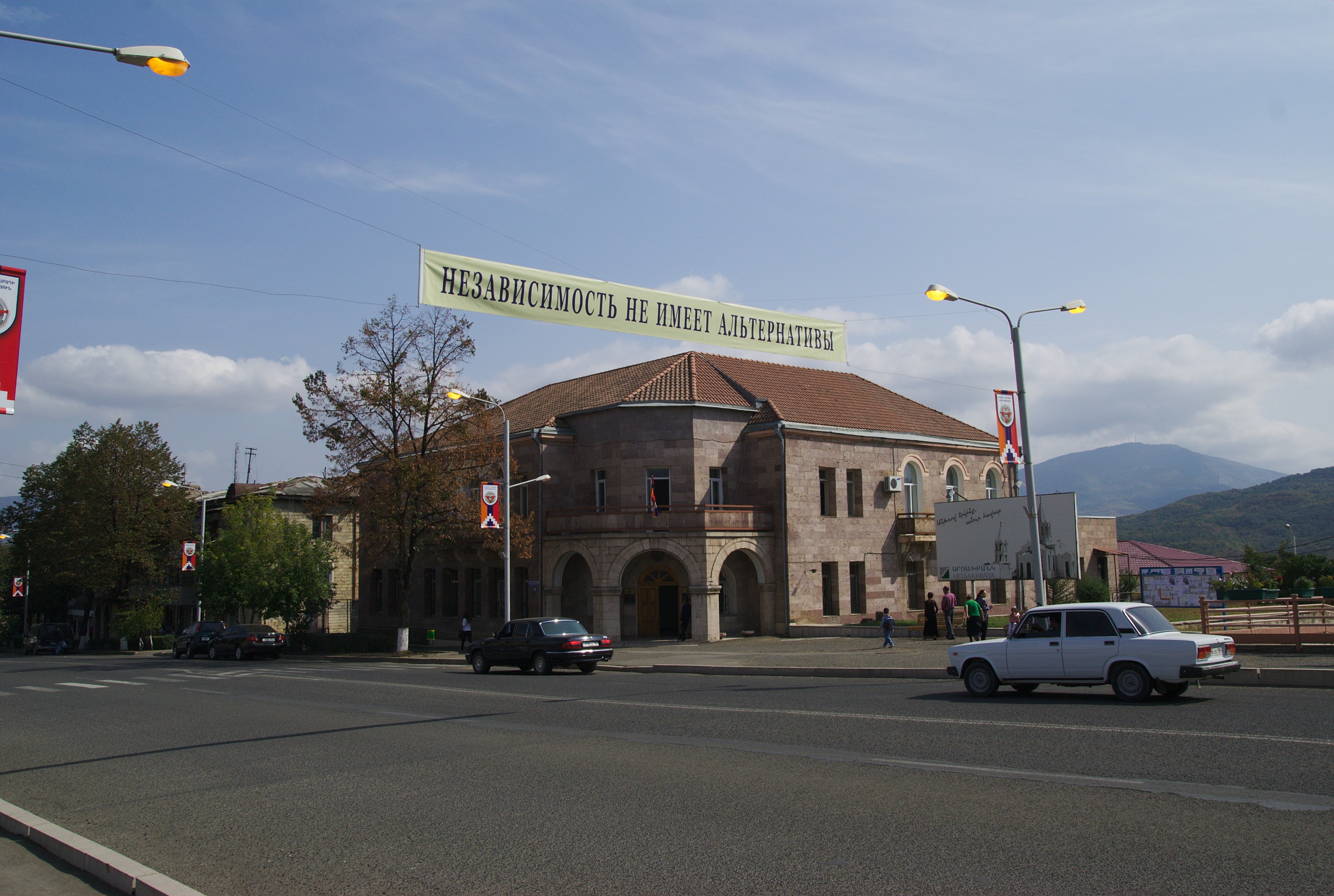 Artsakh, Stepanakert, Nagorno-Karabakh Republic.